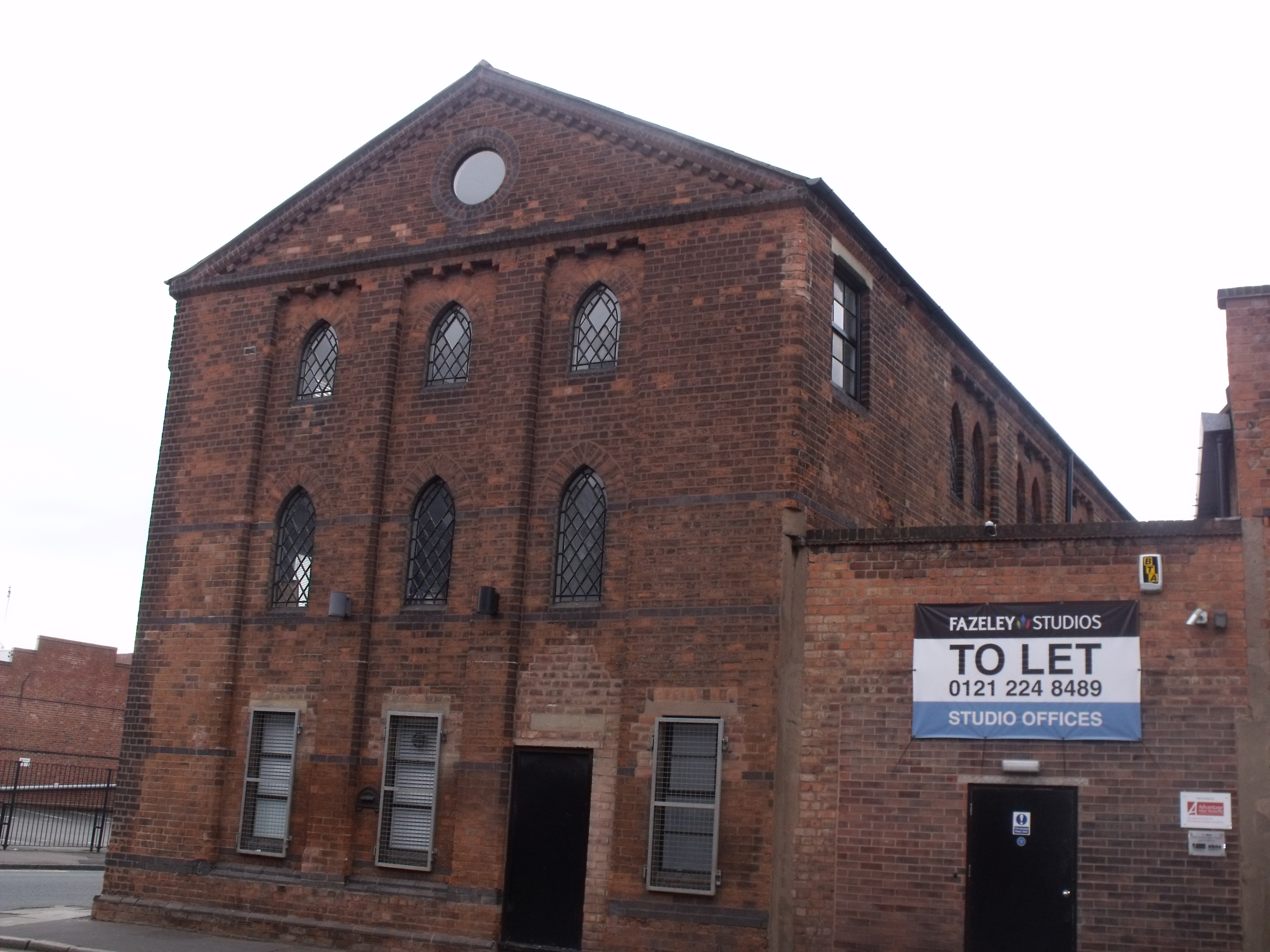 At the end of Fazeley Street (at the junction with Floodgate Street) is Fazeley Studios. It is at 191 Fazeley Street. It is the home of Ikon Eastside. The building on the corner with Floodgate Street was the Unitarian Sunday School of 1865 by A B Phipson, extended to the street corner in 1868. History Fazeley Studios might be a 21st century creative community, but architecturally, the building dates back nearly 150 years to when Digbeth was a gritty industrial and commercial centre. We've done all we can to preserve this heritage, maintaining a strong sense of continuity with the past. The grand central reception was formerly a Unitarian Chapel designed by George Ingall and opened in 1876. The oldest part of the building was constructed as a Unitarian Sunday school in 1865, and now houses a spacious conference room and a group of character studios. The north light studios occupy a series of factory buildings dating from the 1920s. Digbeth was first settled in the 6th century and became an important centre for industry in medieval times as local rivers were harnessed to power its mills, before playing its part in the industrial revolution. In the 21st century, the area's excellent accessibility, facilities and affordability are promoting it as the Creative and Digital capital of the region. Fazeley Studios was conceived in 2006, and with the support of Advantage West Midlands has been the subject of a comprehensive reconstruction.